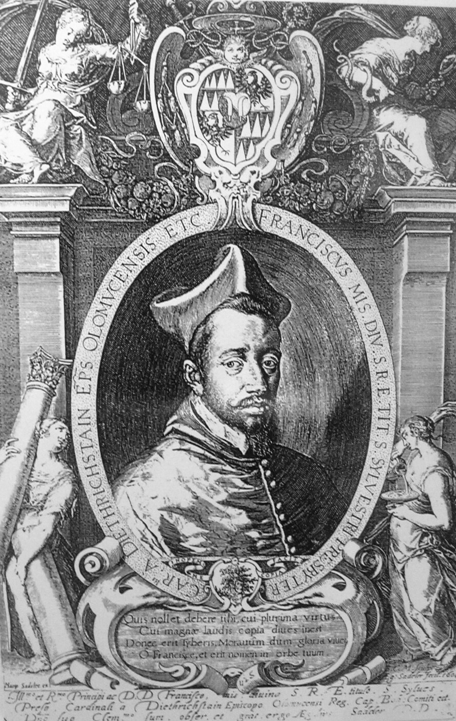 Painting of bishop of Olomouc František z Ditrichštejna